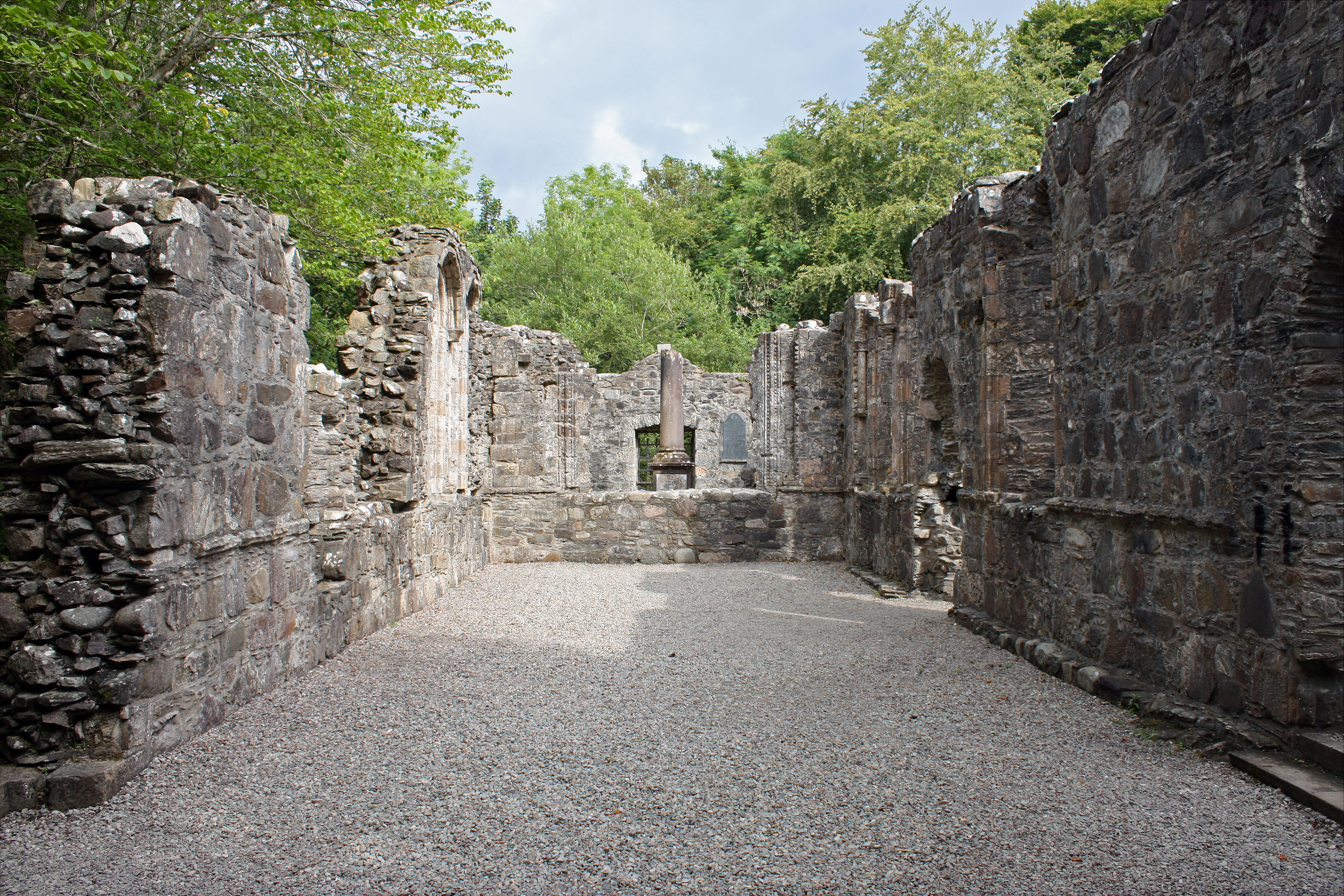 The ruins of Dunstaffnage chapel, near Dunstaffnage castle.